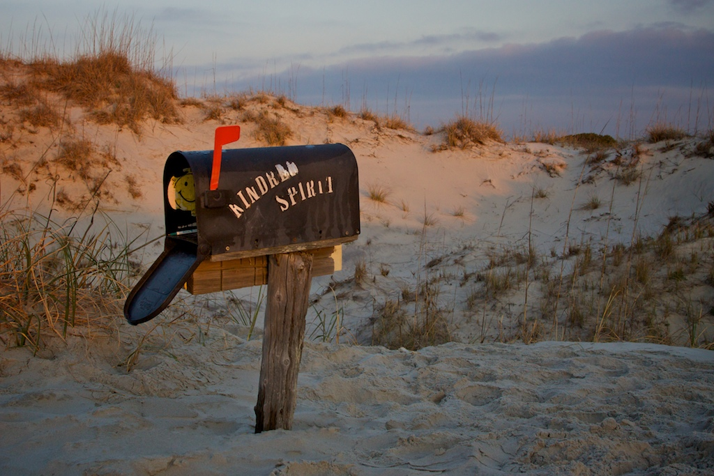 photograph of the mailbox on Bird Island, North Carolina.